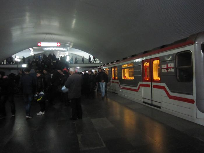 Metro Station Station Square 2, Tbilisi, Georgia